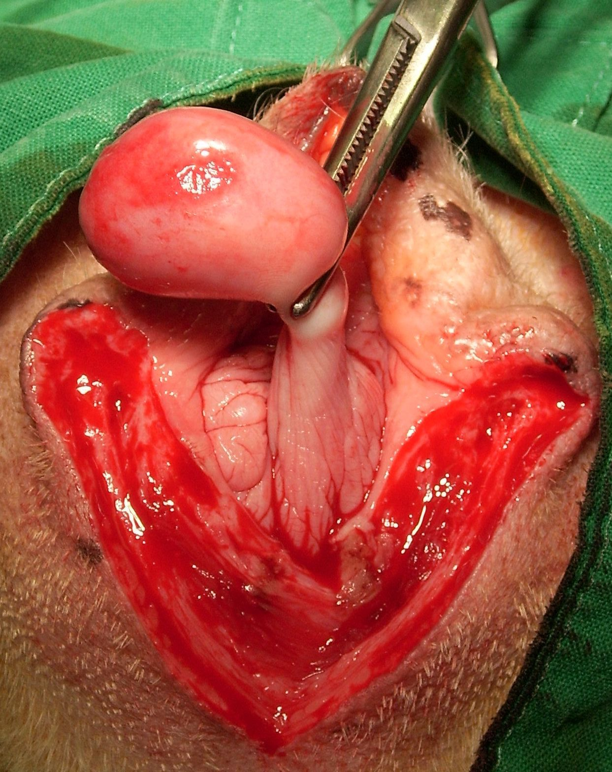 Leiomyoma in a bitch